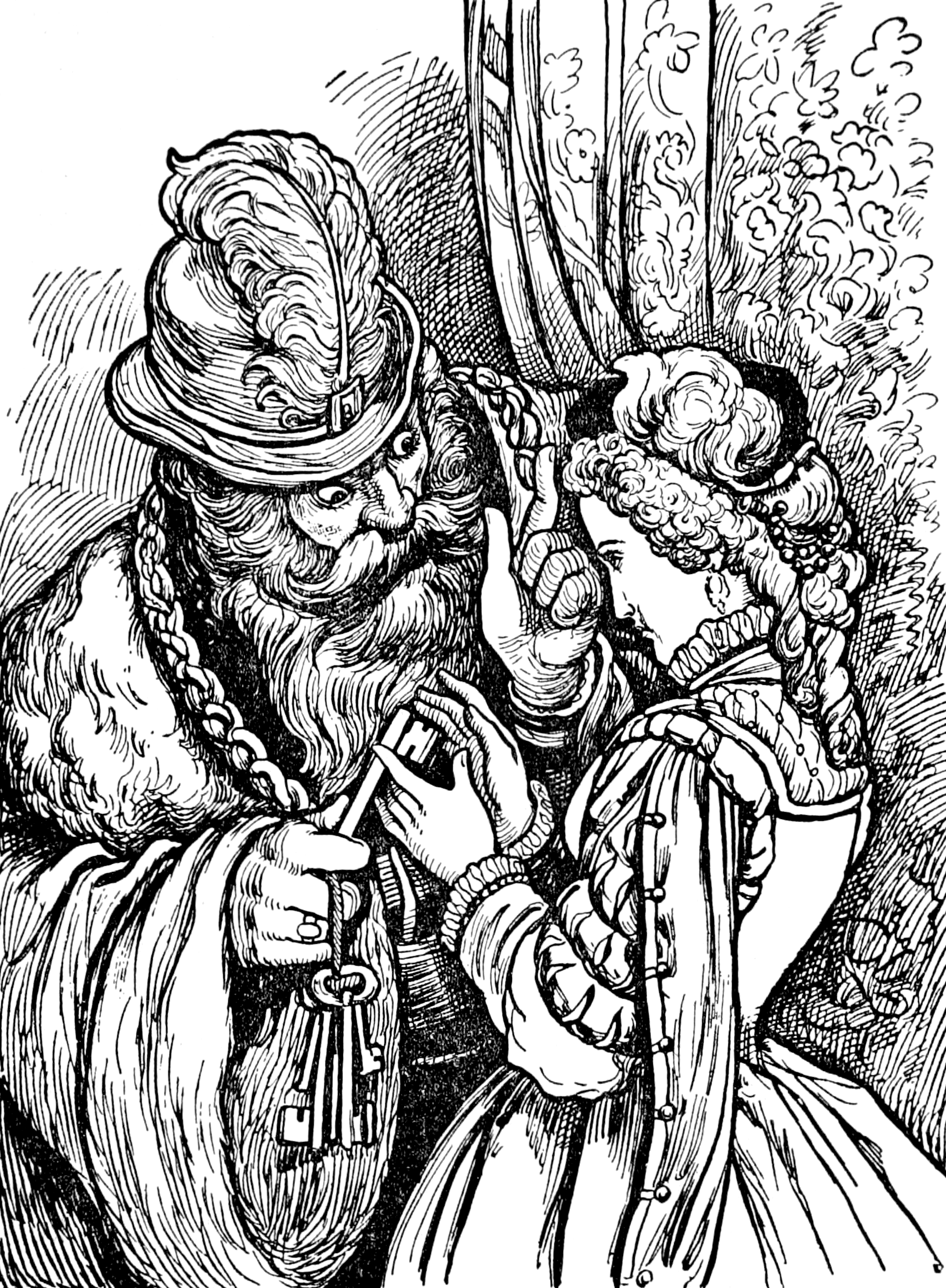 An illustration from Tales of Mother Goose by Charles Perrault; translated and edited by Charles Welsh The caption was "If you open it, there's nothing you may not expect from my anger", it illustrates the tale "Blue Beard"